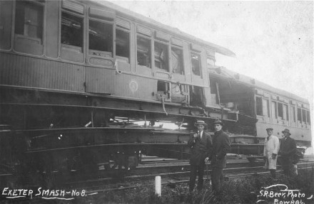 Telescoped carriages from Exeter crossing loop collision.